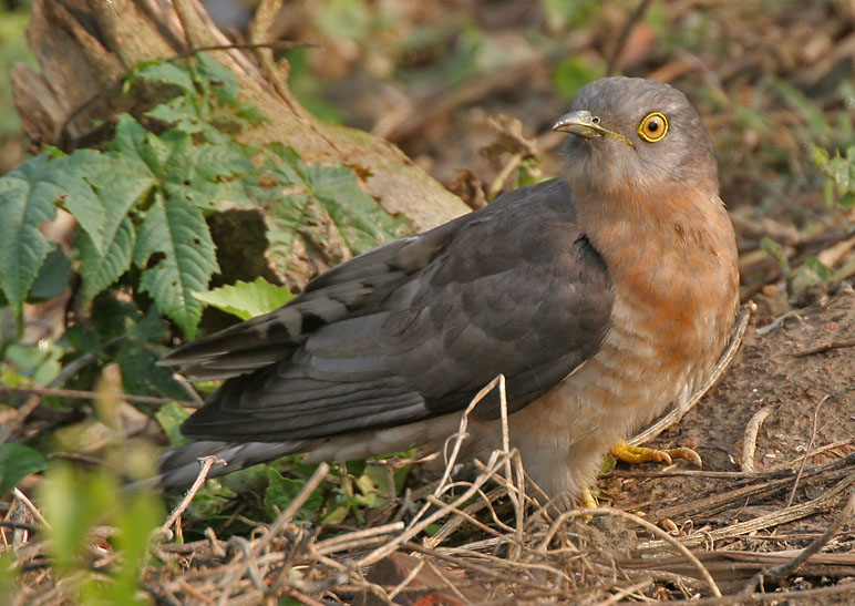 Common Hawk Cuckoo Cuculus varius (syn. Hierococcyx varius) at Narendrapur near Kolkata, West Bengal, India.